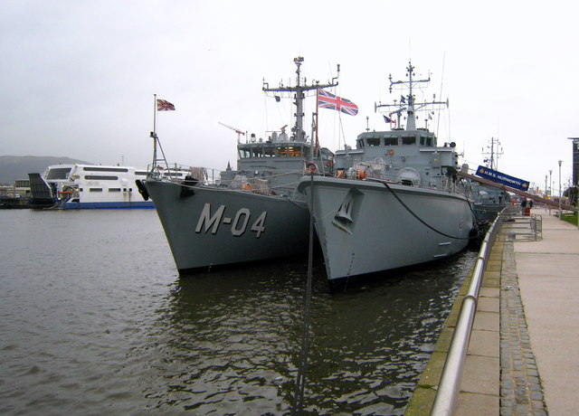 Naval Ships in Belfast [3] On the left is the Latvian 'Imanta' and on the right is the British 'HMS Hurworth'. See also 667325